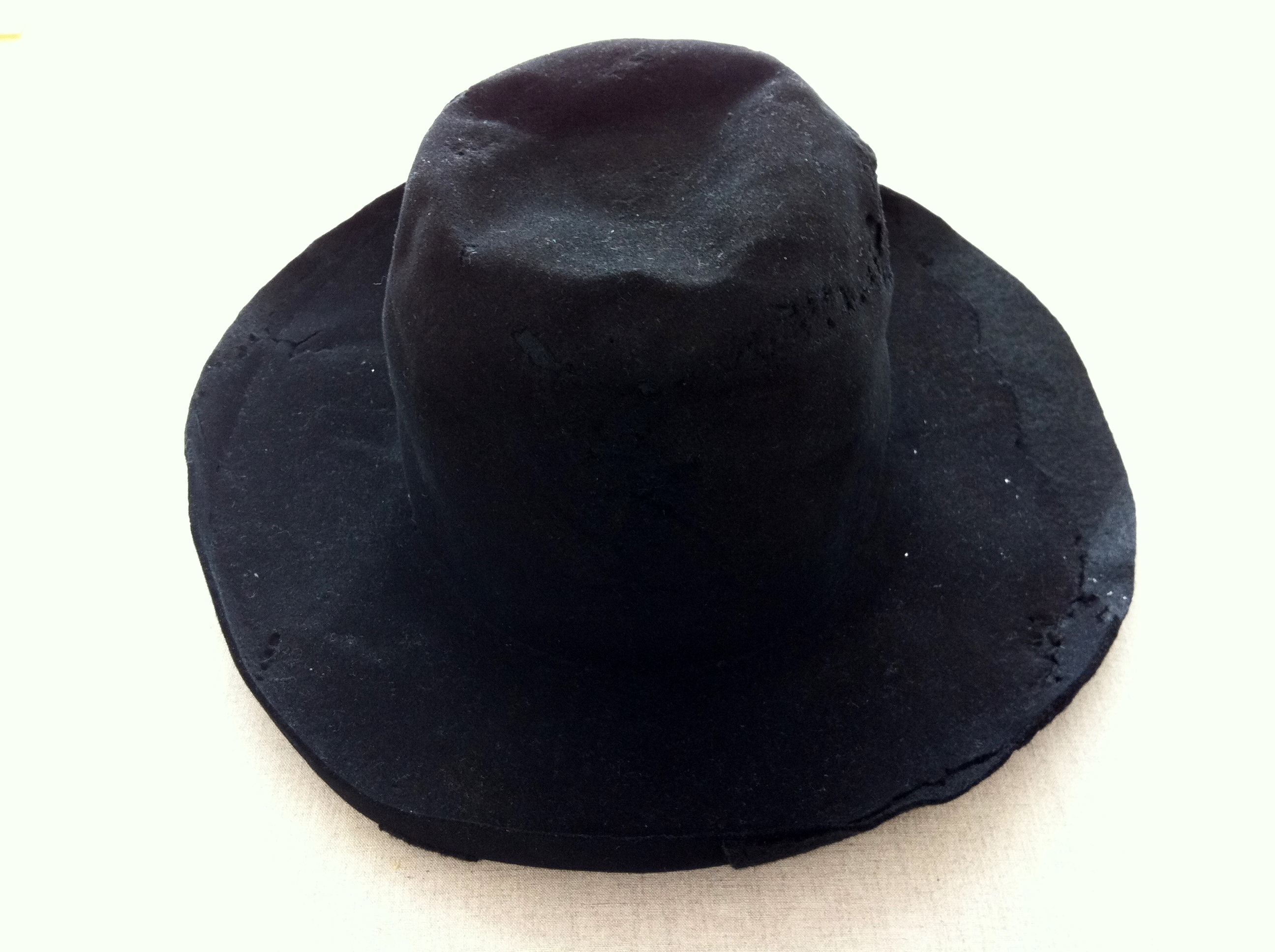 Documentation Center and Textile Museum of Terrassa